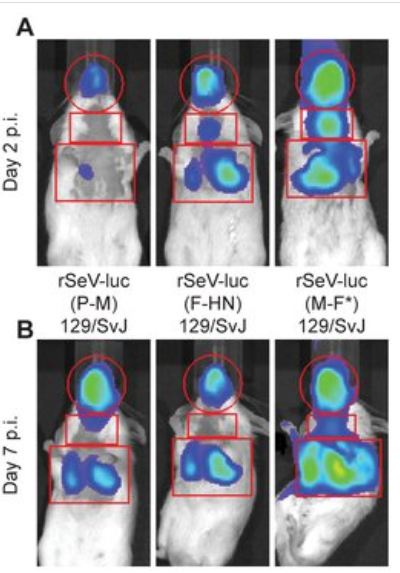 Eight-week-old mice were intranasally inoculated with 7,000 PFU of rSeV-luc(P-M), rSeV-luc(F-HN), or rSeV-luc(M-F*). Every 24 hours the mice were intraperitoneally injected with luciferin substrate, anesthetized with isoflurane, imaged with a Xenogen IVIS device, and then allowed to recover. Bioluminescence in one experiment is shown on day 2 (A) and day 7 (B) post-infection (p.i.) in 129/SvJ mice infected with rSeV-luc(P-M), rSeV-luc(F-HN), or rSeV-luc(M-F*). The data are displayed as radiance (bioluminescence intensity) on a rainbow log scale with a range of 1×106 (blue) to 1×109 (red) photons/s/cm2/steradian. Red circles indicate regions of interest (ROI) used to calculate the total flux (photons/s) in the nasopharynx, and red rectangles indicate the ROI areas for the trachea and lungs.